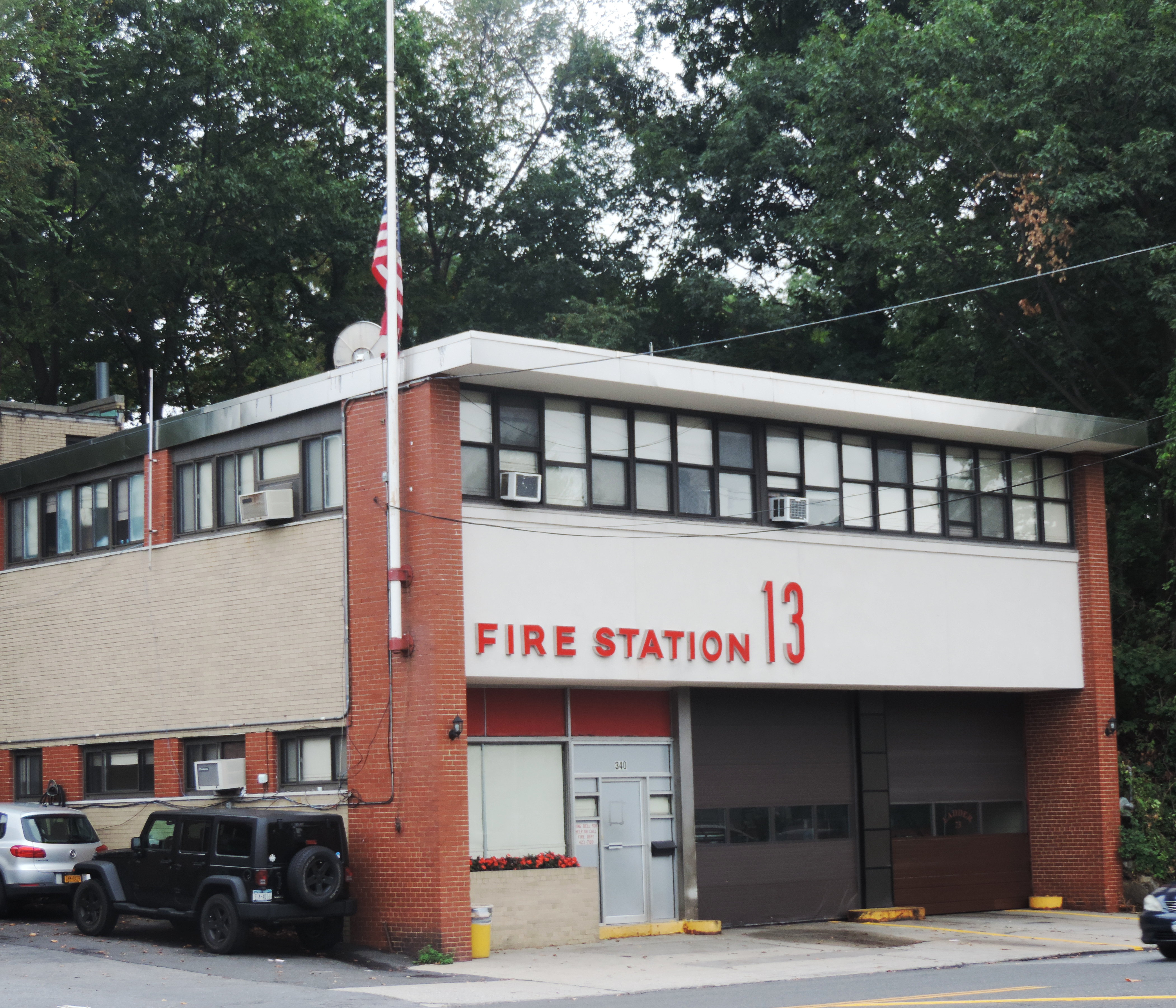 Looking southeast at firehouse on a cloudy midday.